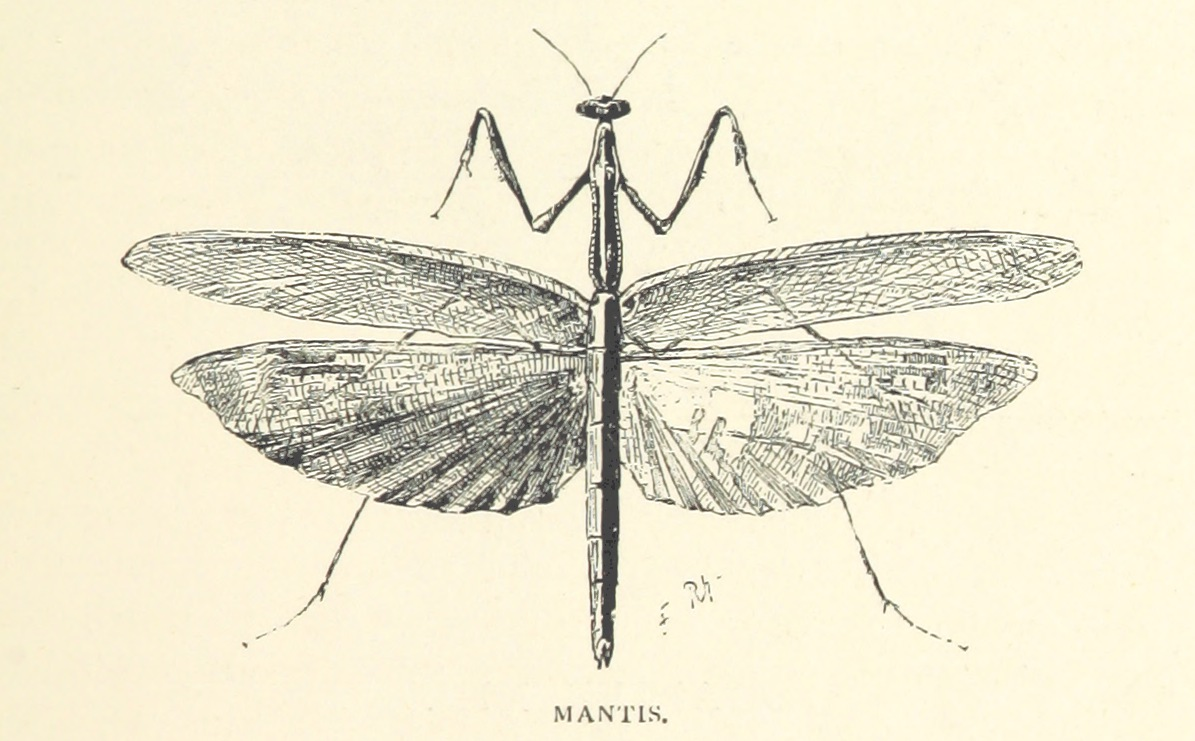 Image taken from: Title: "Travels in Africa during the years 1875-1878 (1879-1883-1882-1886) ... Translated from the German by A. H. Keane ... Illustrated" Author: JUNKER, Wilhelm. Contributor: KEANE, Augustus Henry. Shelfmark: "British Library HMNTS 010096.i.59." Volume: 03 Page: 535 Place of Publishing: London Date of Publishing: 1890 Publisher: Chapman & Hall Issuance: monographic Identifier: 001913884 Explore: Find this item in the British Library catalogue, 'Explore'. Open the page in the British Library's itemViewer (page image 535) Download the PDF for this book Image found on book scan 535 (NB not a pagenumber)Download the OCR-derived text for this volume: (plain text) or (json) Click here to see all the illustrations in this book and click here to browse other illustrations published in books in the same year. Order a higher quality version from here.